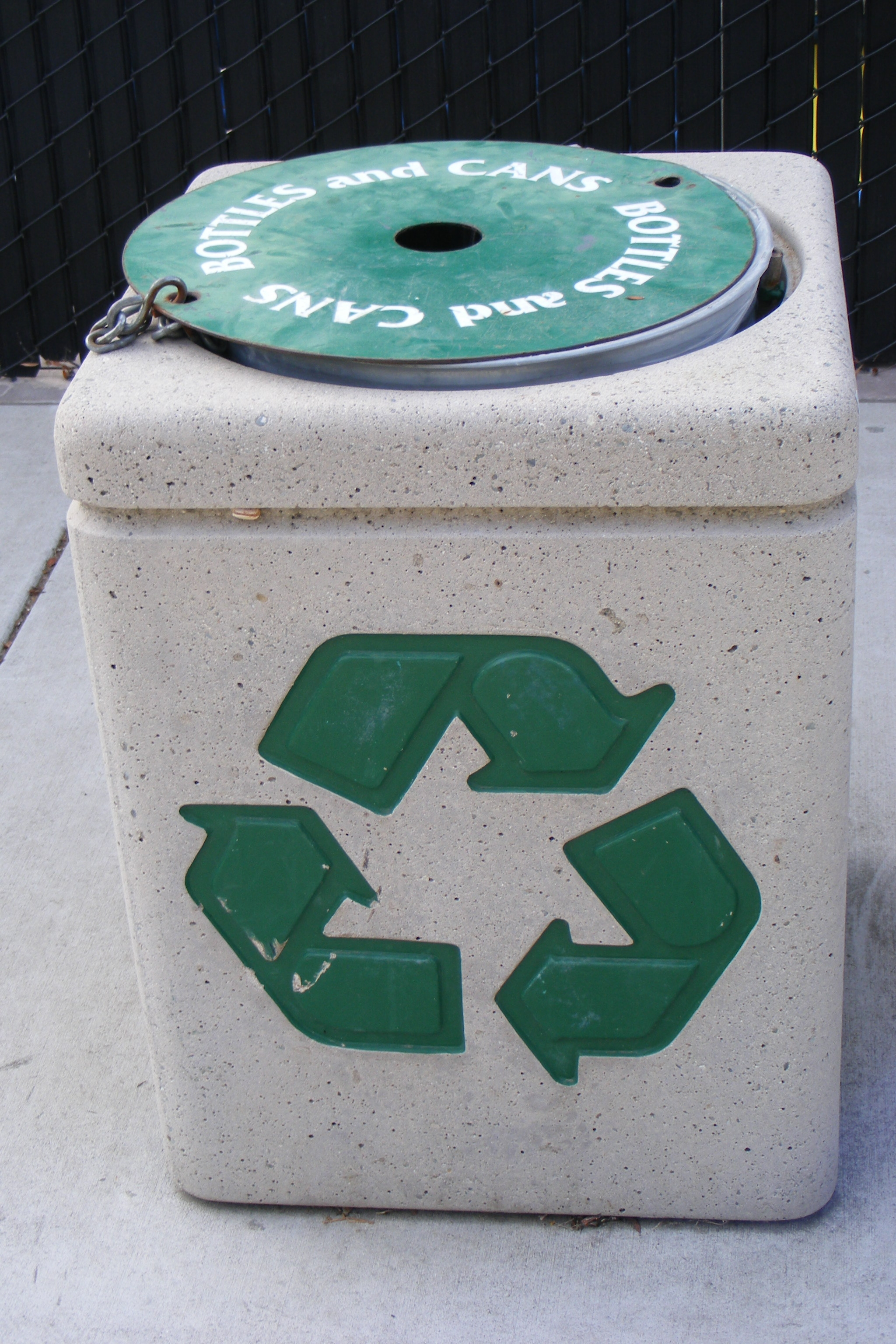 A recycling bin at a park in northern California. Photo taken November 8, 2007. Notes If you are a publisher and would like to use these images under a different license please contact me and we can negotiate different terms. You can find my entire image collection here: User:J.smith/gallery